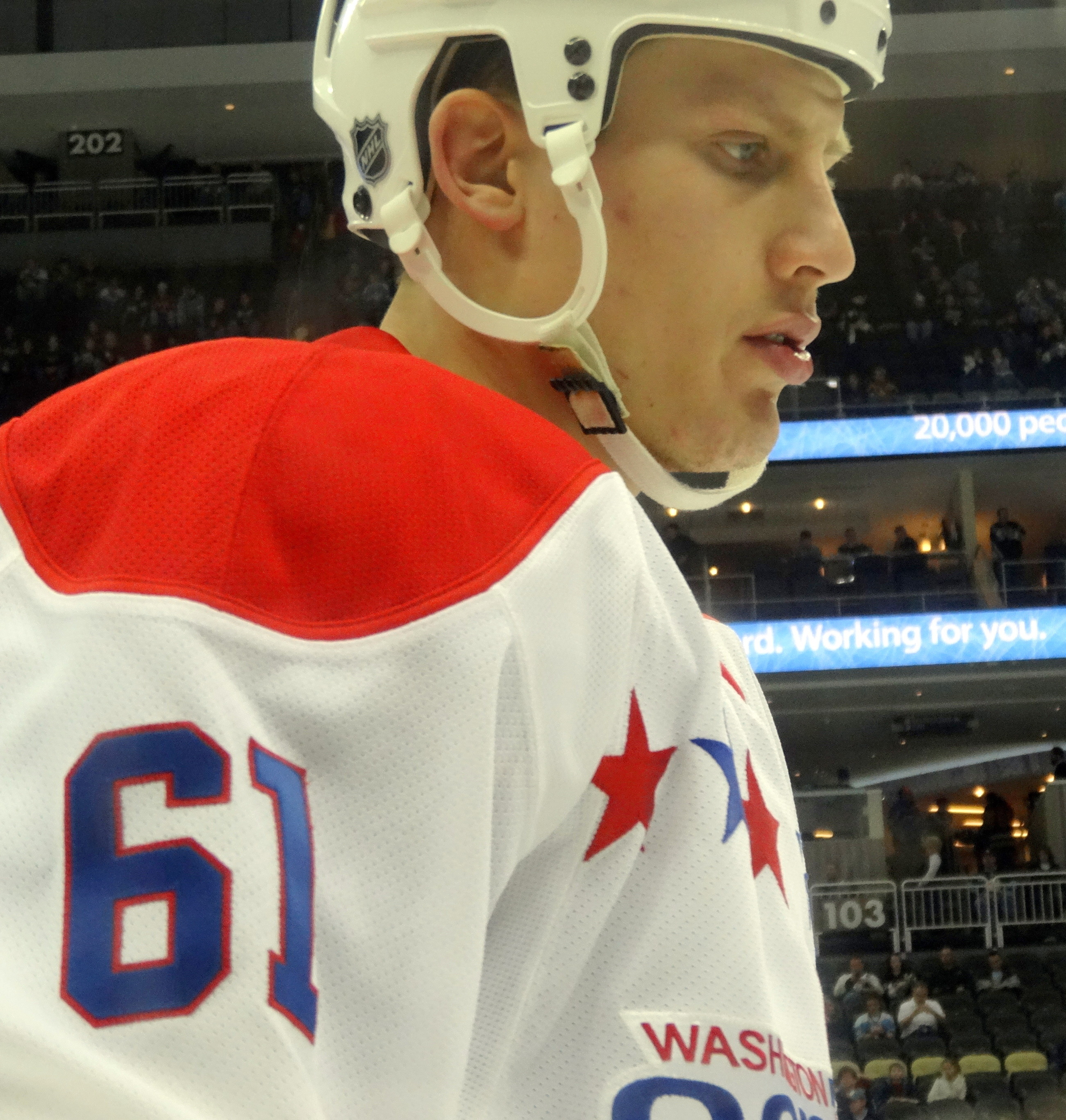 Washington Capitals defensemen Steve Oleksy warms up before a game against the Pittsburgh Penguins, March 19, 2013 at Consol Energy Center in Pittsburgh, PA.